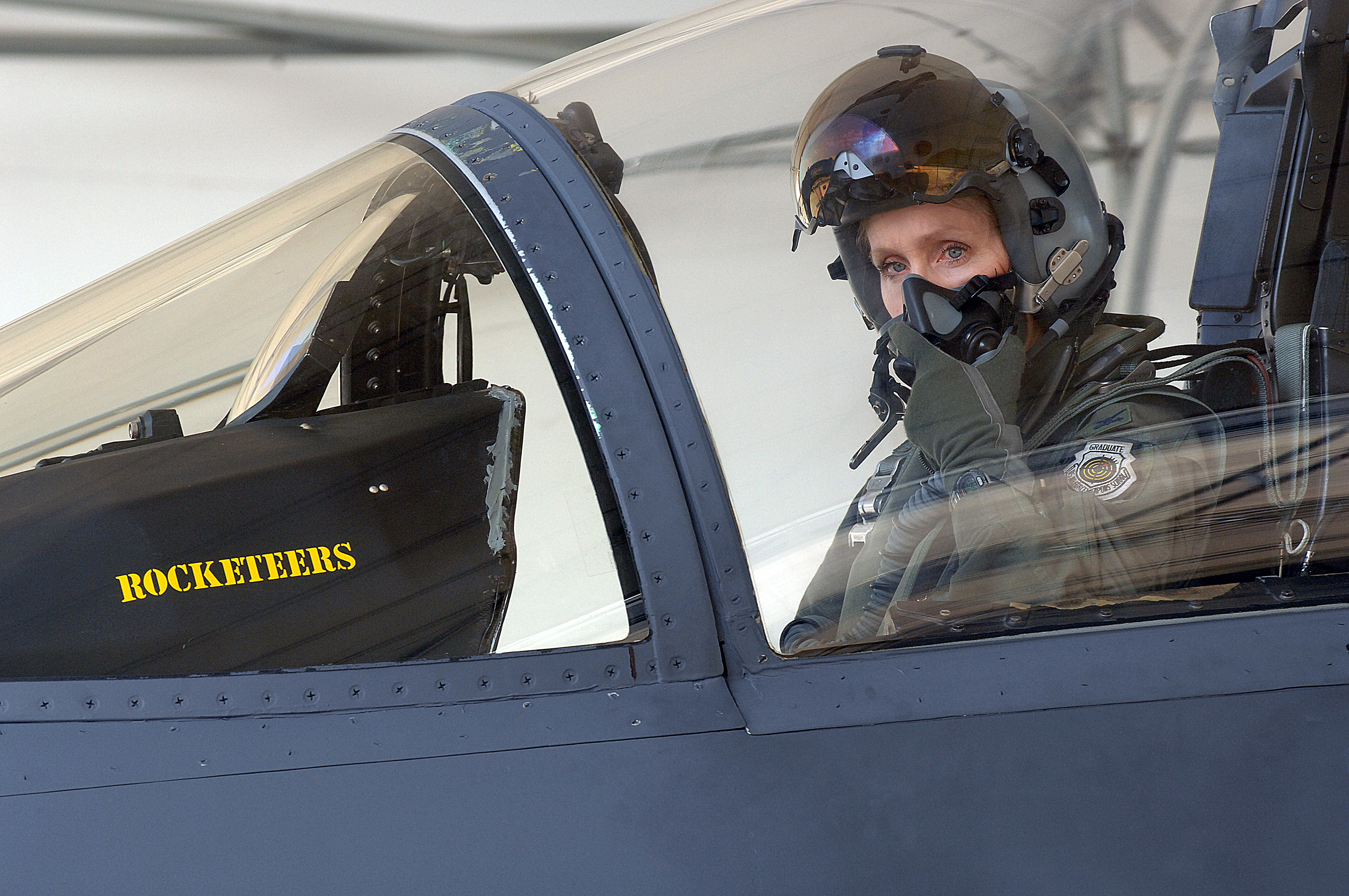 U.S. Air Force Col. Jeannie Leavitt, 4th Fighter Wing commander, prepares for her first flight as part of exercise RAZOR TALON at Seymour Johnson Air Force Base, N.C., Sept. 6, 2013. “This is my first opportunity to fly in Razor Talon and I’m very excited,” Leavitt said.